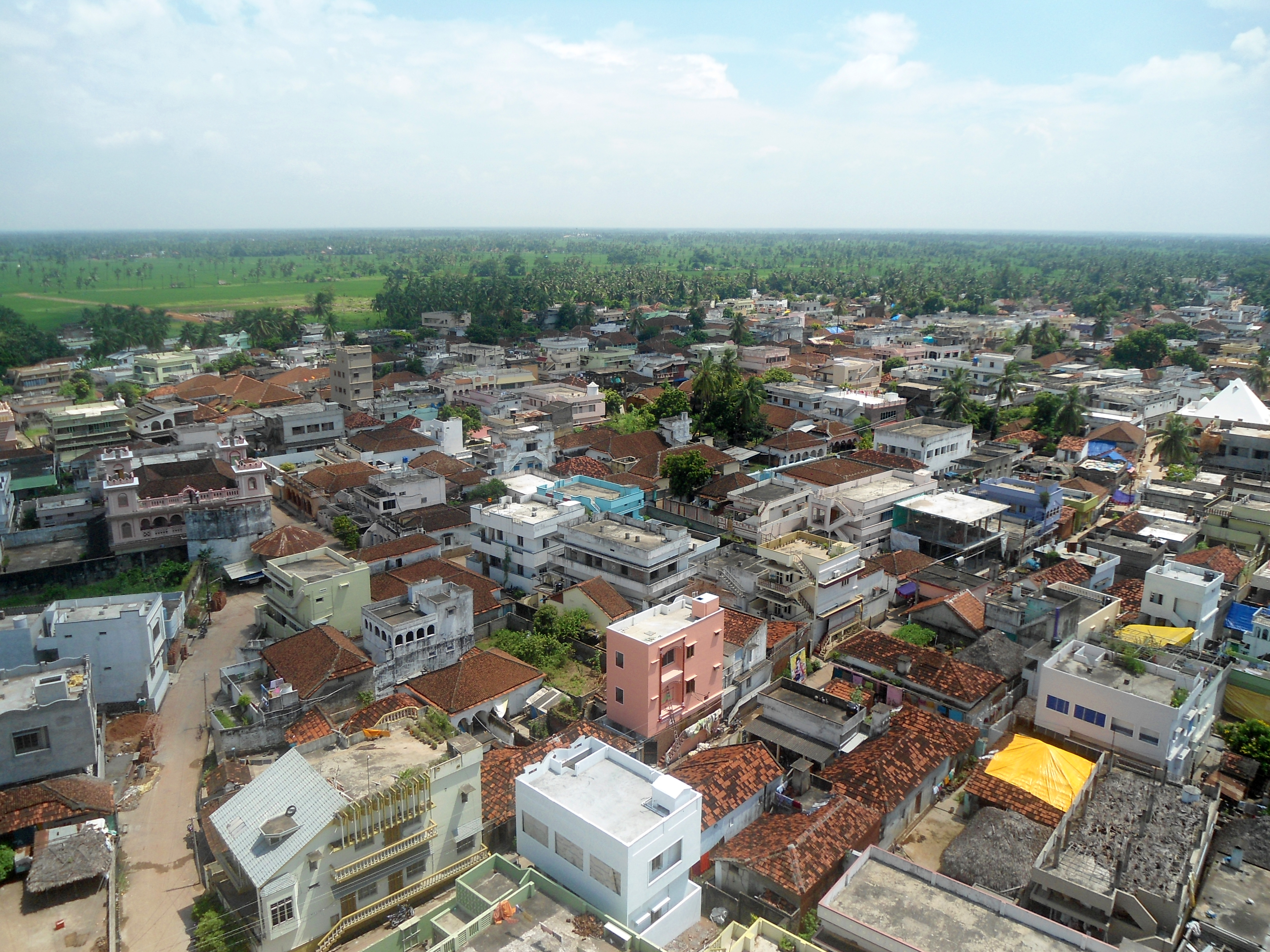 Aerial view of Gollala Mamidada Town in East Godavari district